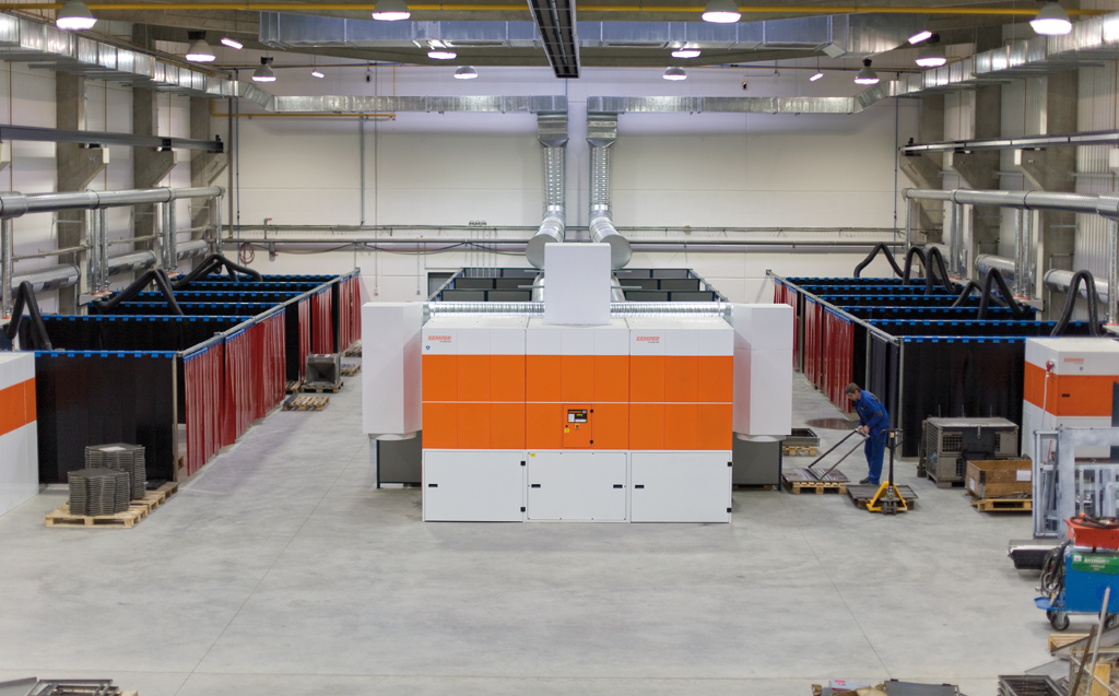 Extraction and filter units for central extraction systems with automatic filter cleaning. Welding workstations/booths